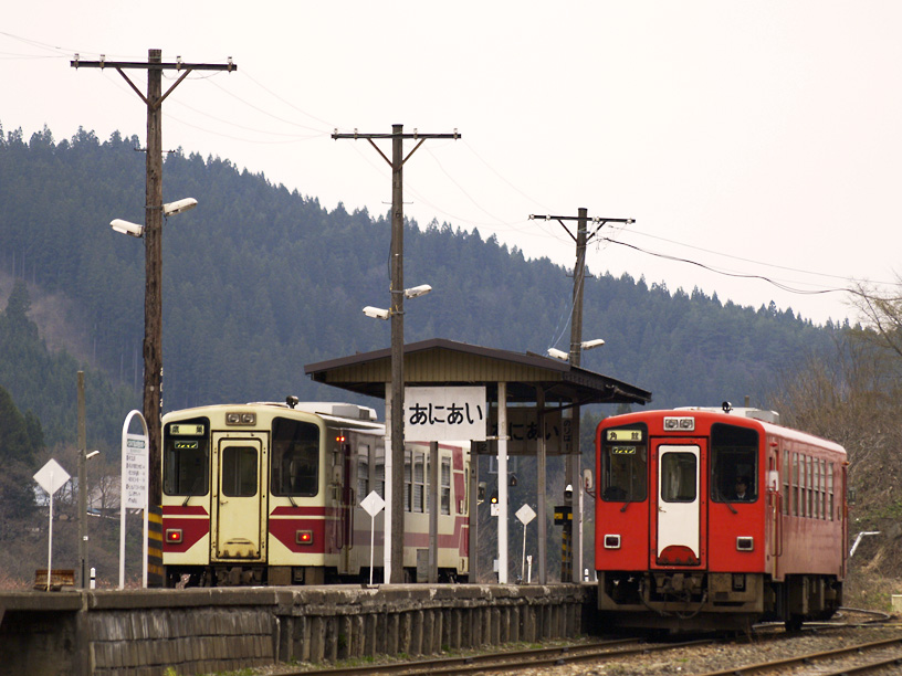 Aniai Sta. in Kitaakita, Akita, Japan.